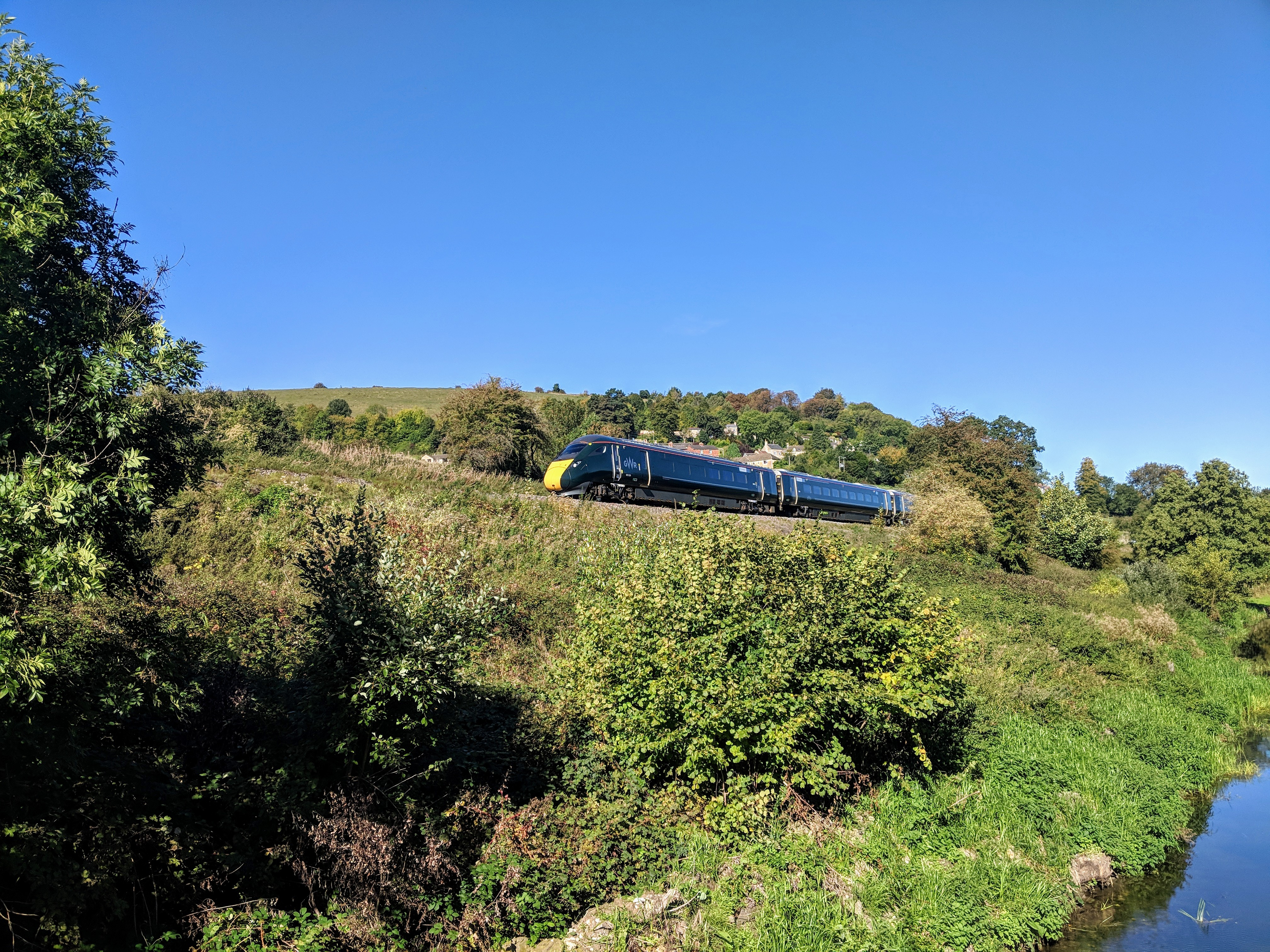 GWR Class 800 on the Golden Valley line next to the canal in Stroud.